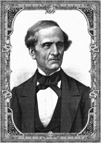 Self-portrait of José María Gutiérrez Estrada, Lithograph (1870-1907).